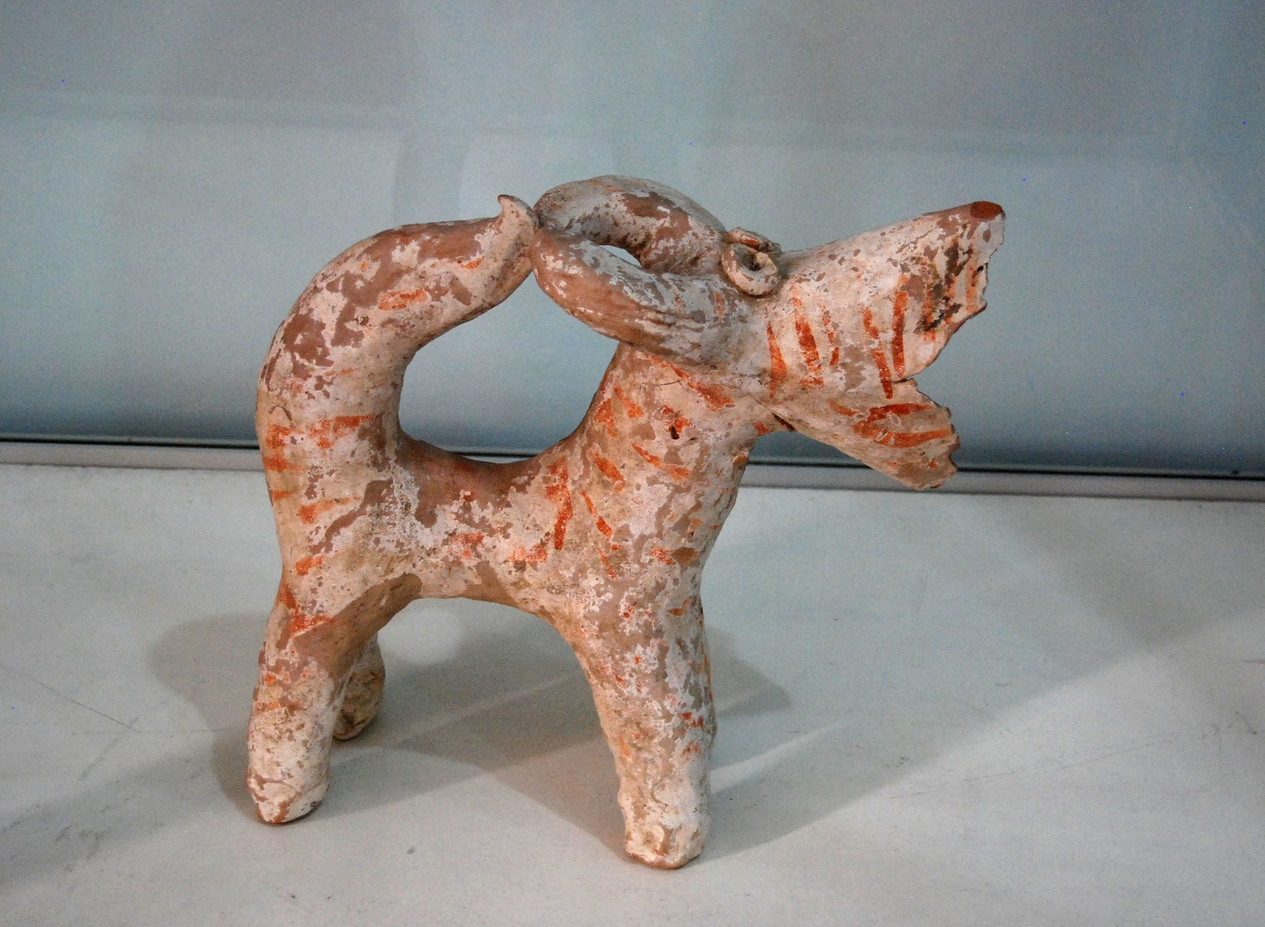 Bunjikat, Kala-i Kahkaha in: Dushanbe, National Museum of Antiquities